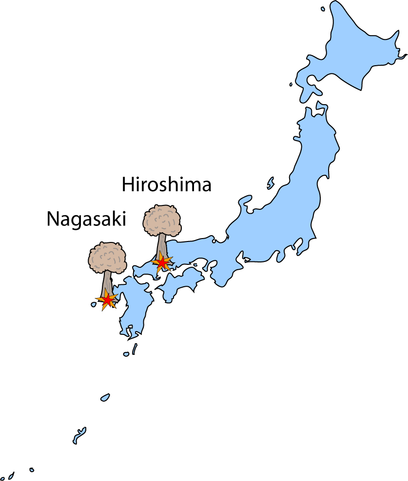 Map of Japan with location of Hiroshima and Nagasaki